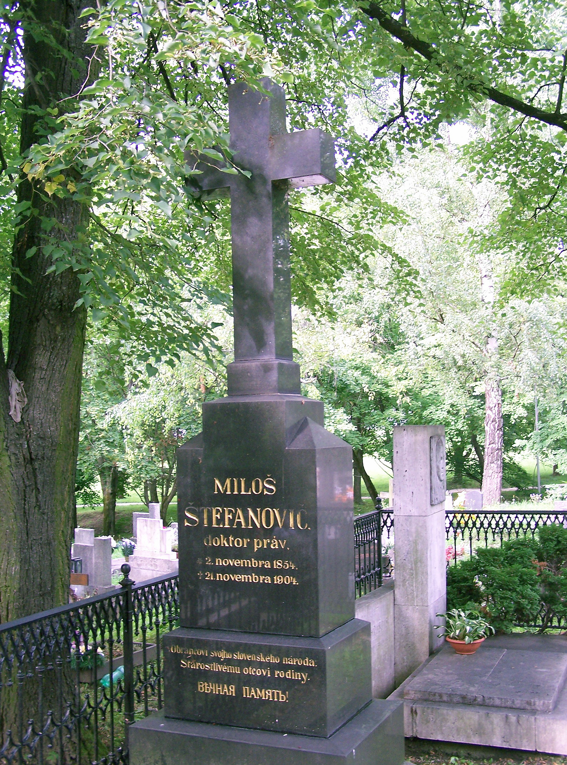 Grave of Miloš Štefanovič at the National Cemetery in Martin, Slovakia